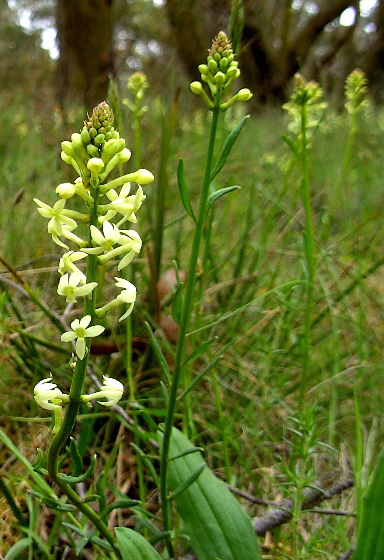 Stackhousia monogyna Spring in Oberon is always a bit behind other places. Oz violets, blue daisys and buttercups are flowering, but it's the Creamy Stackhousia that don't seem to mind the cold. Narrow-leaf peppermints and Mountian Gum predominate in this woodland at the Oberon Dam.